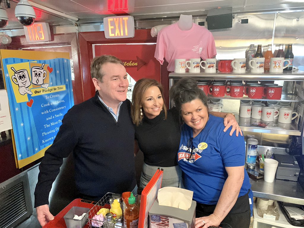 Had to stop one final time at the @RedArrow24Diner for some pie. It was a family affair: Coconut chocolate, chocolate cream, raspberry lemon, blueberry lemon, and cherry #NHPrimary2020